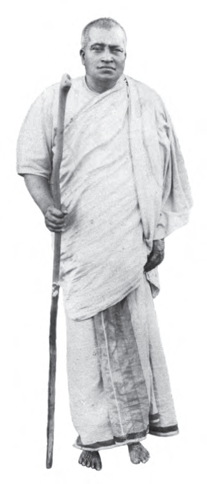 Swami Shivananda, also known as Mahapurush Maharaj, a direct disciple of 19th century mystic Ramakrishna Paramahamsa